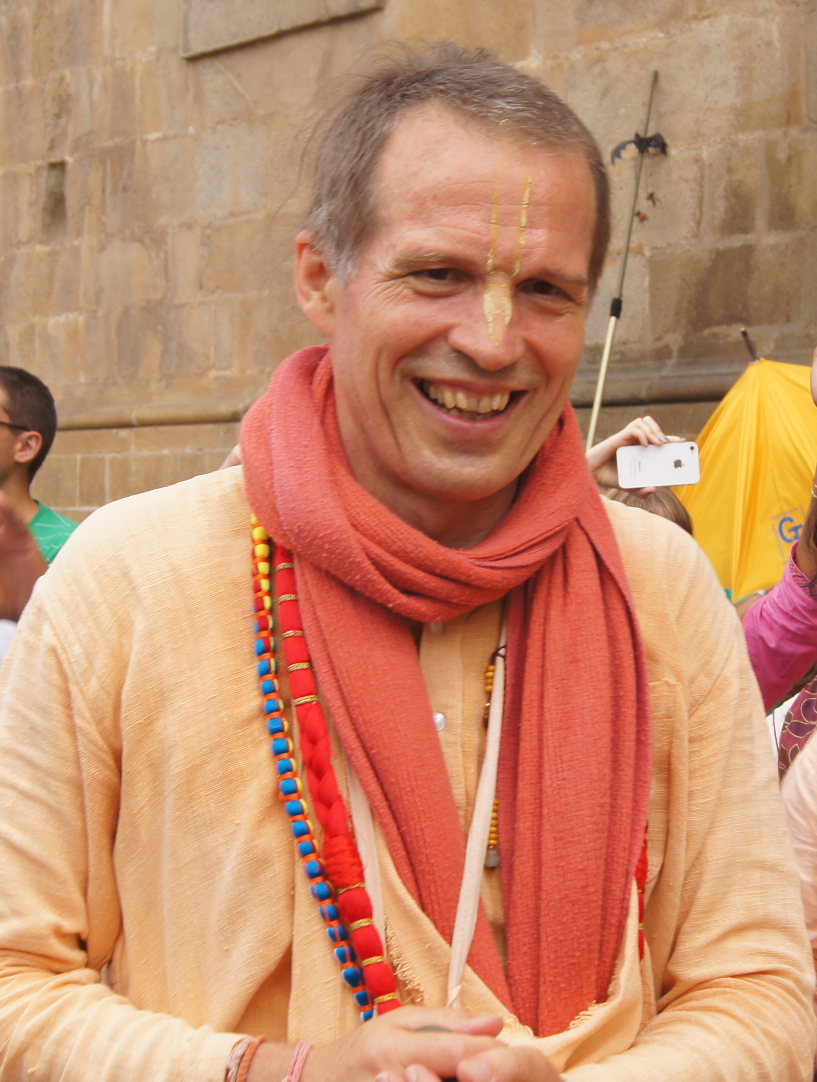 Sacinandana Swami at Santiago de Compostela